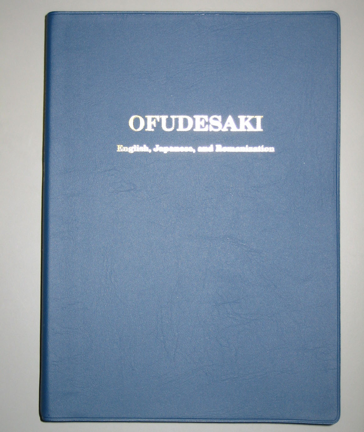 Cover of Ofudesaki, published by Tenrikyo Church Headquarters.